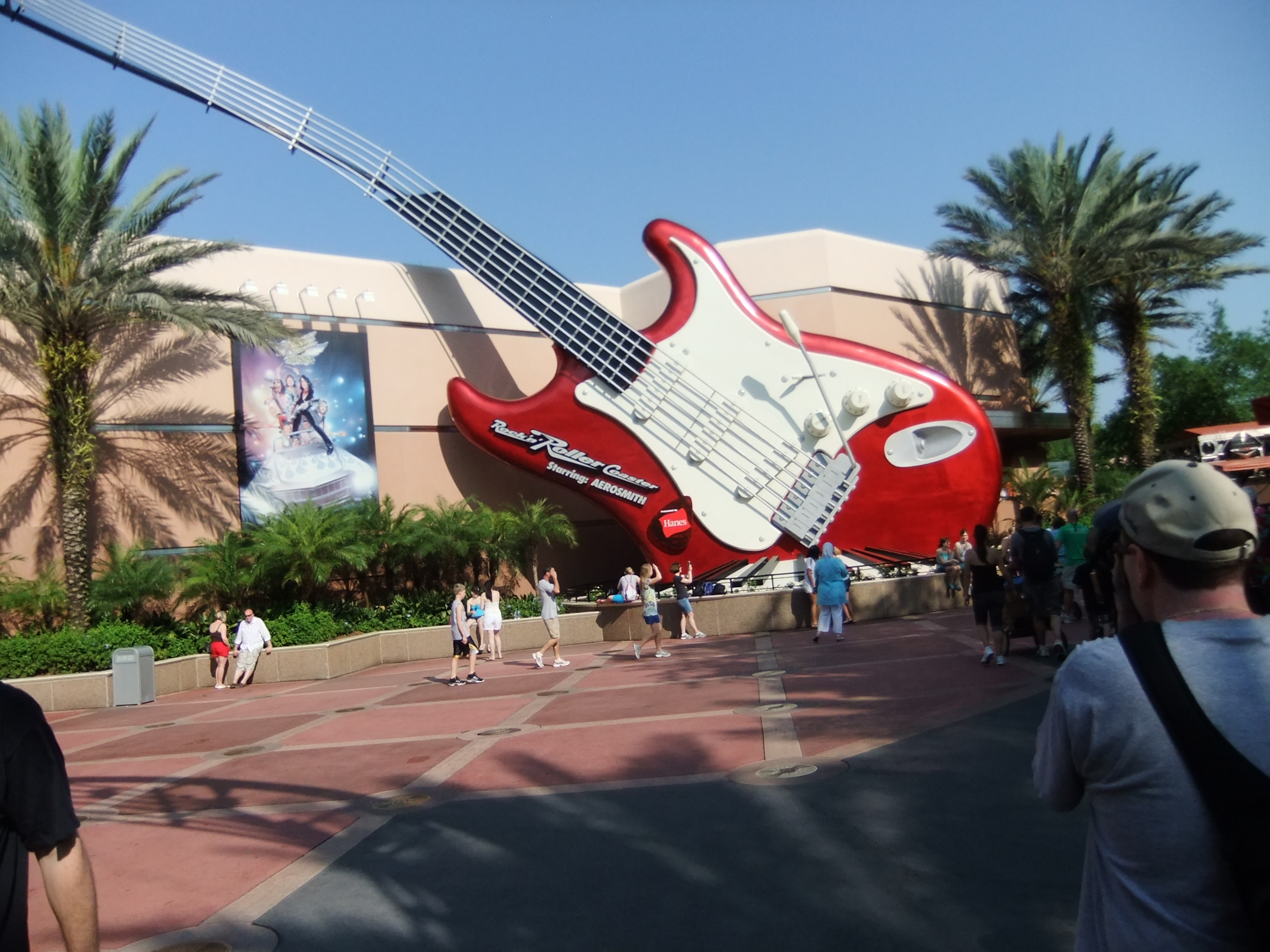 Rock'n'Roller Coaster in Hollywood Studios